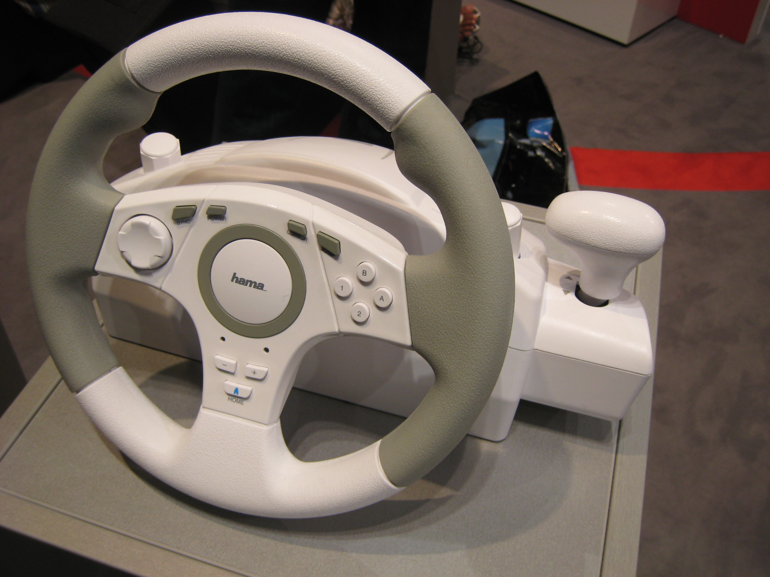 A steering wheel by hama at the Gamescom 2009 which should improve the control for racing games for the Nintendo Wii compared to the Wii Remote